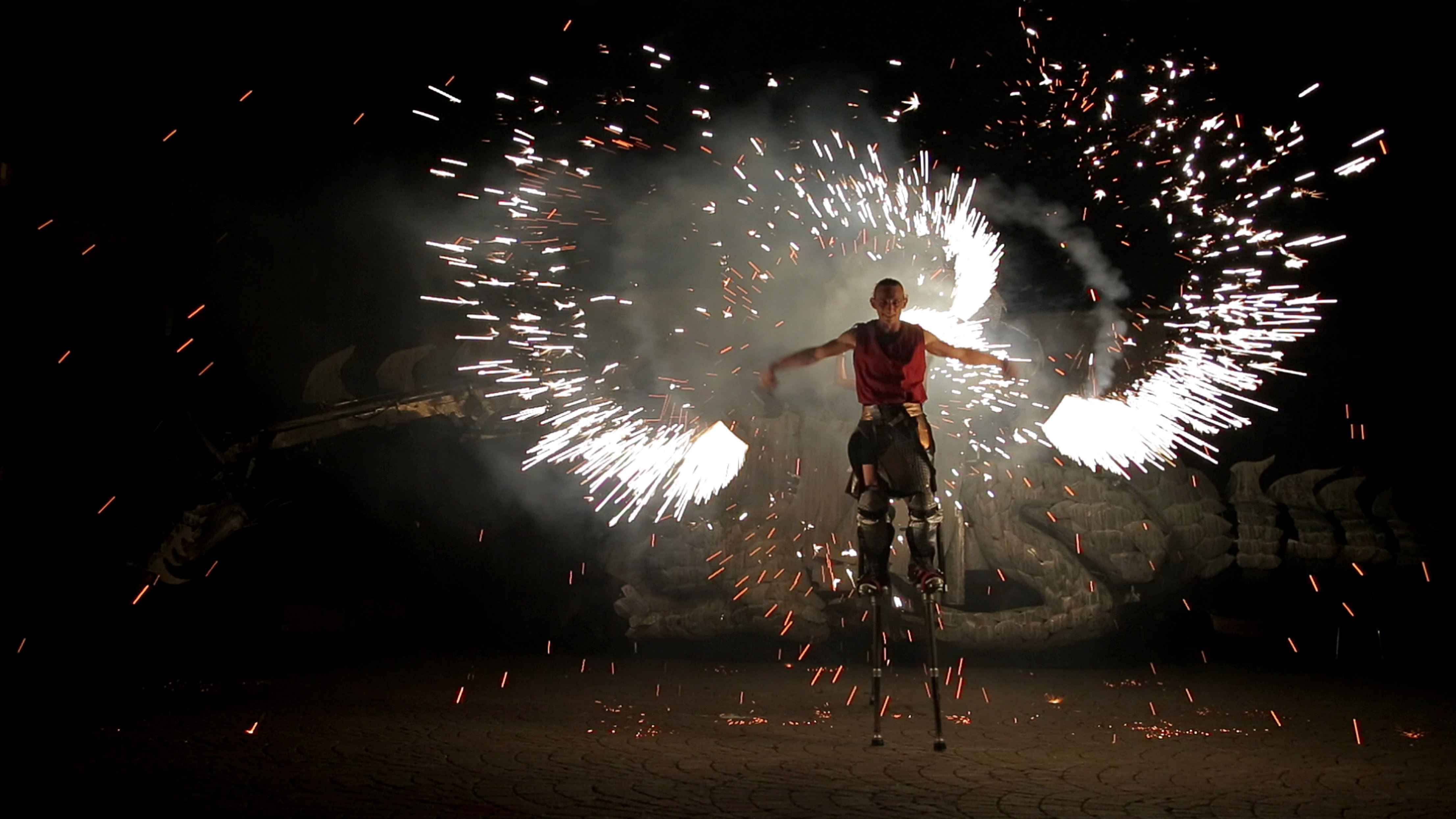 Street Spectacle Dragonus takes to the streets of Galway for the Galway International Arts Festival 2014